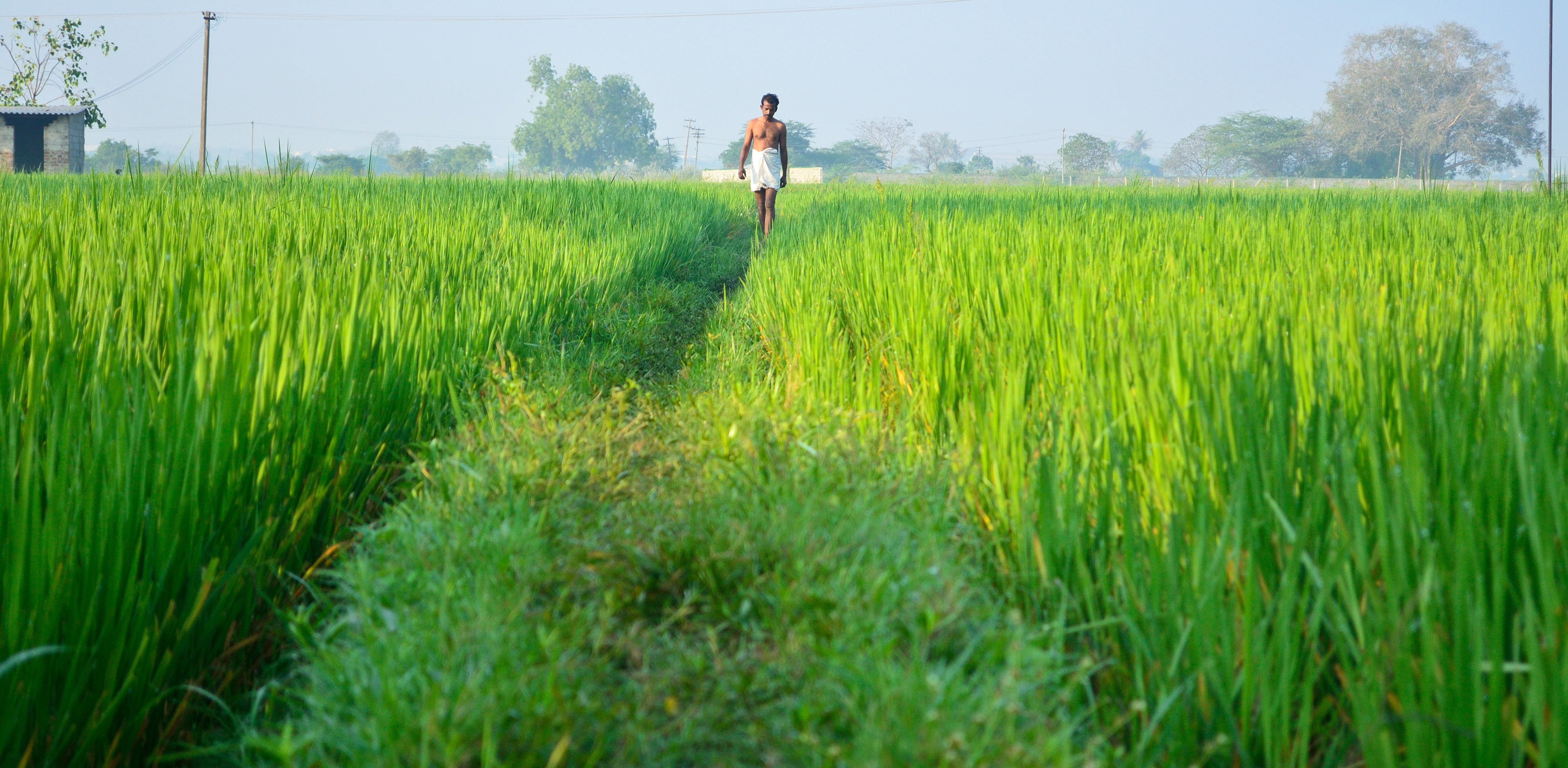 Morning Walk